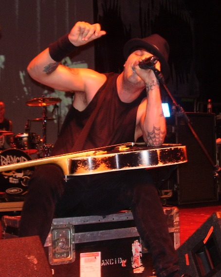 Tim Armstrong at the Rancid show in Ventura, Ca on Sep 24 2008